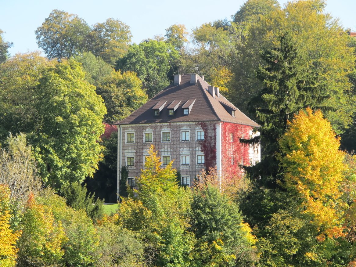 Castle "Schloss Berg"